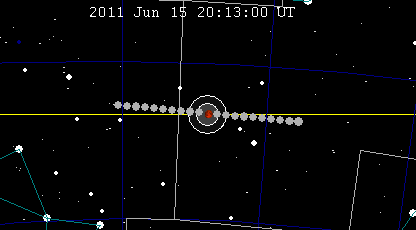 June 2011 lunar eclipse chart The position of the moon (and earth's shadow) are shown as viewed from center of earth (small parallel occurs from specific location on surface of the earth. The moon is drawn at maximum eclipse, and circles for every hour of motion.